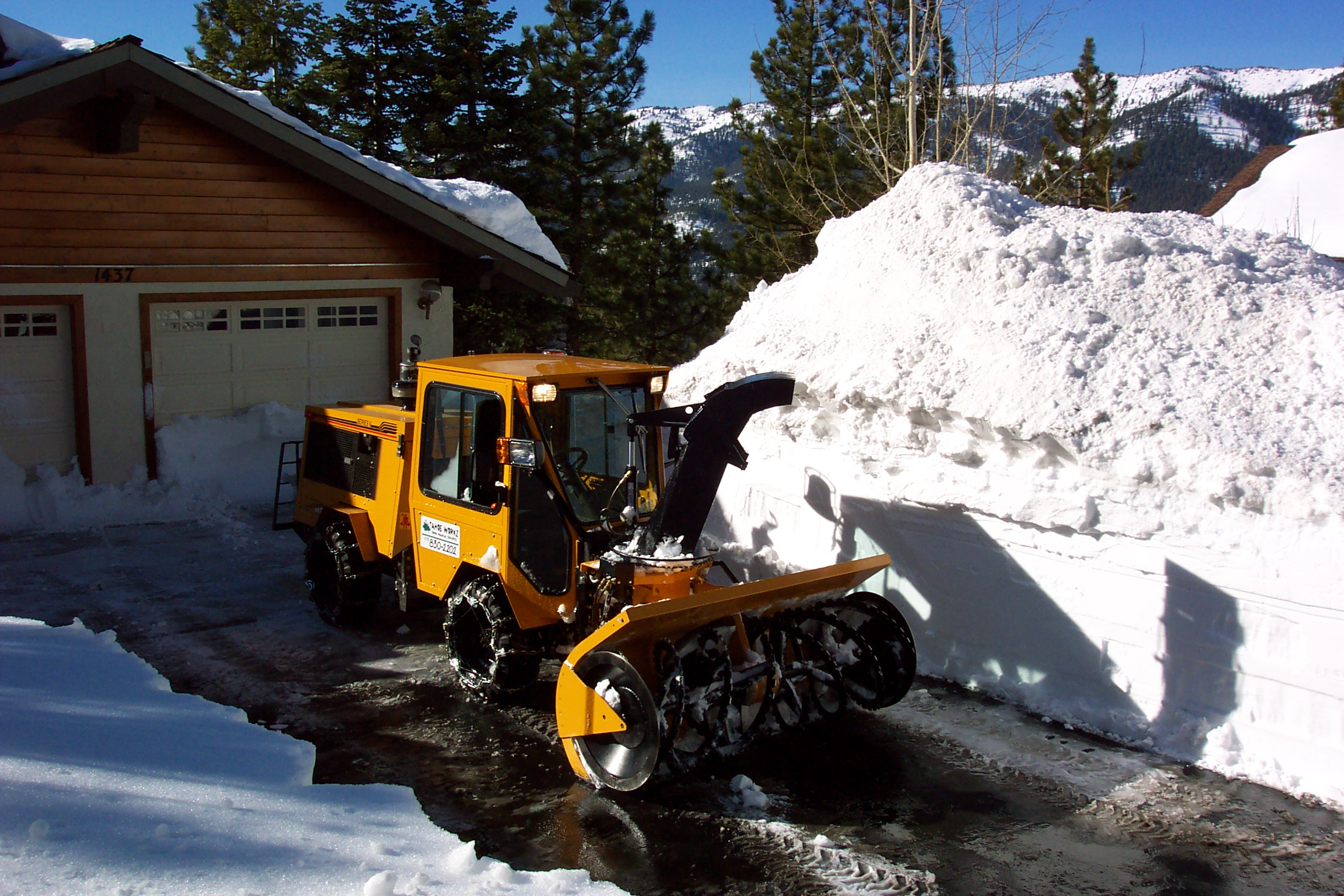 Clearing a residential driveway in Incline Village (Lake Tahoe), Nevada. Snow Removal / Snow Blowing Services.